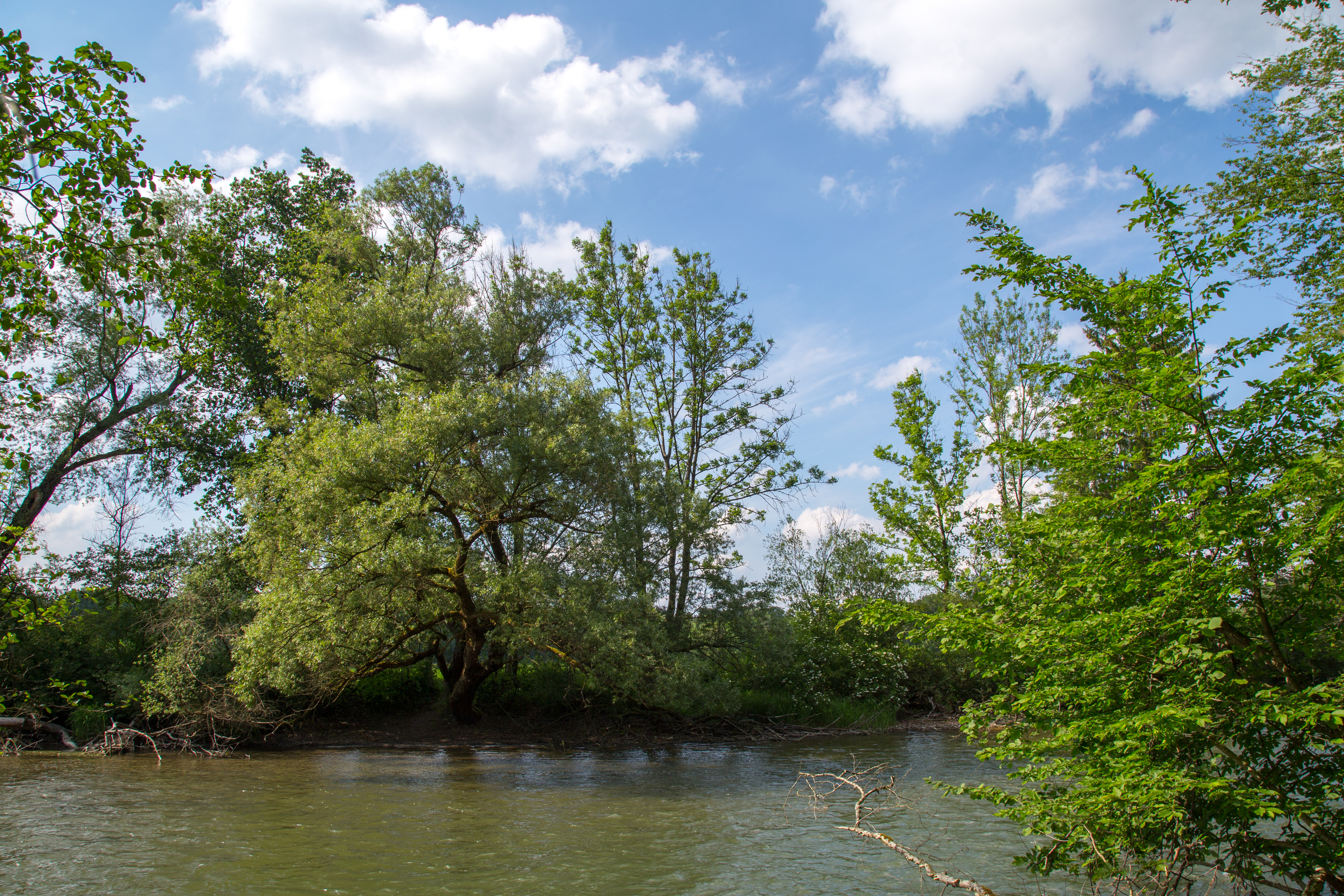 Amperauen between Schöngeising and Fürstenfeldbruck